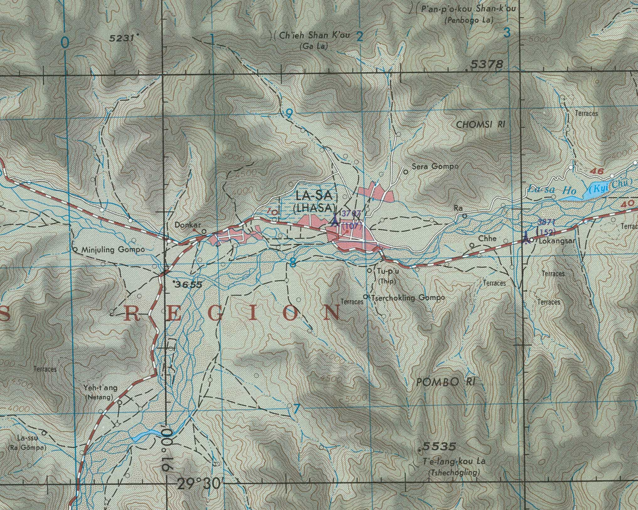 NH-46-9 Lasa Tibet